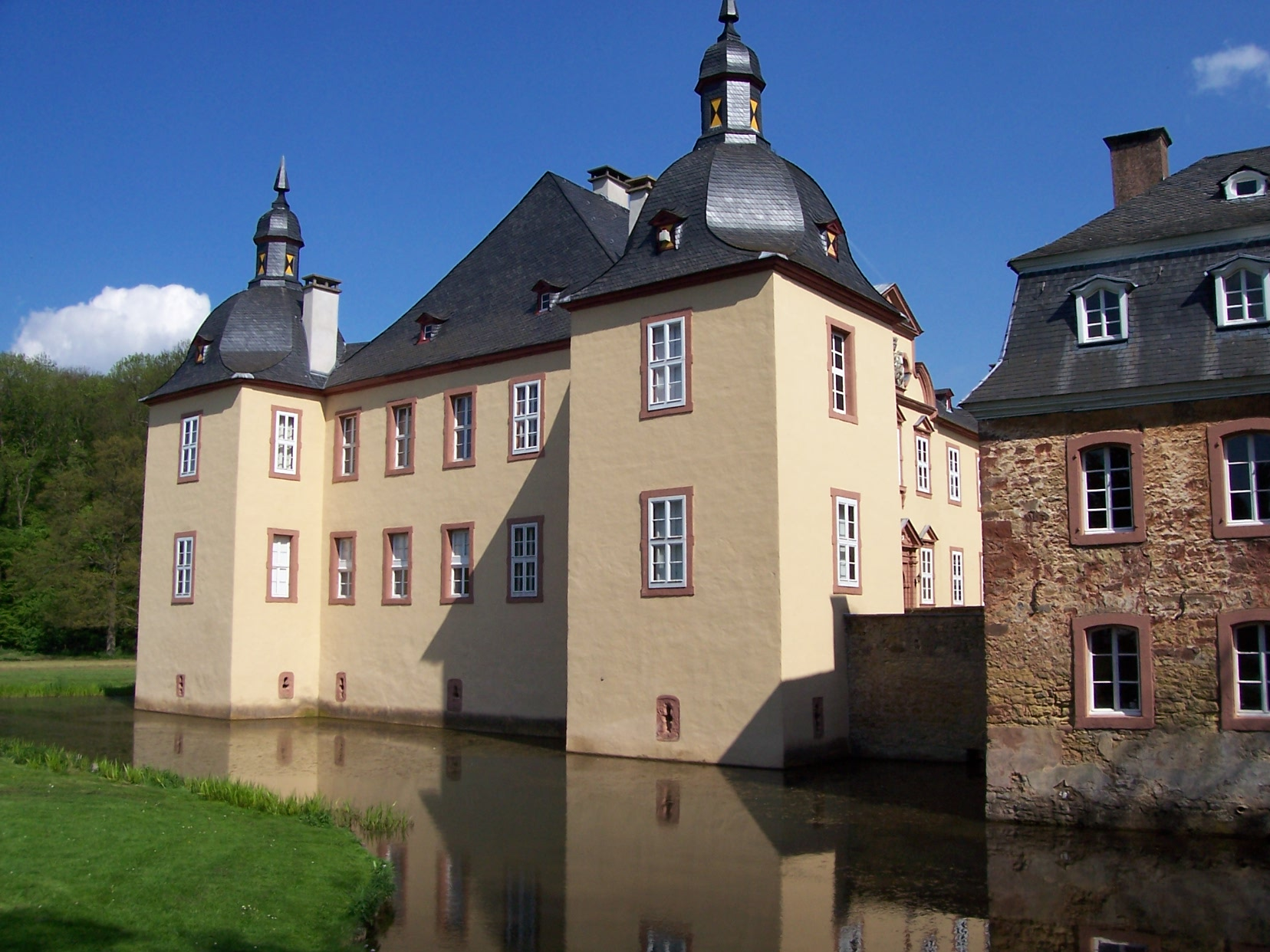 North western aspect of Eicks castle